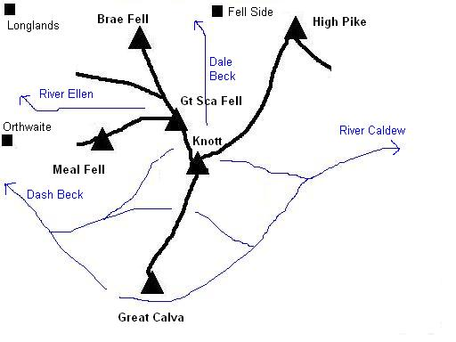 Sketch map of Knott, English Lake District